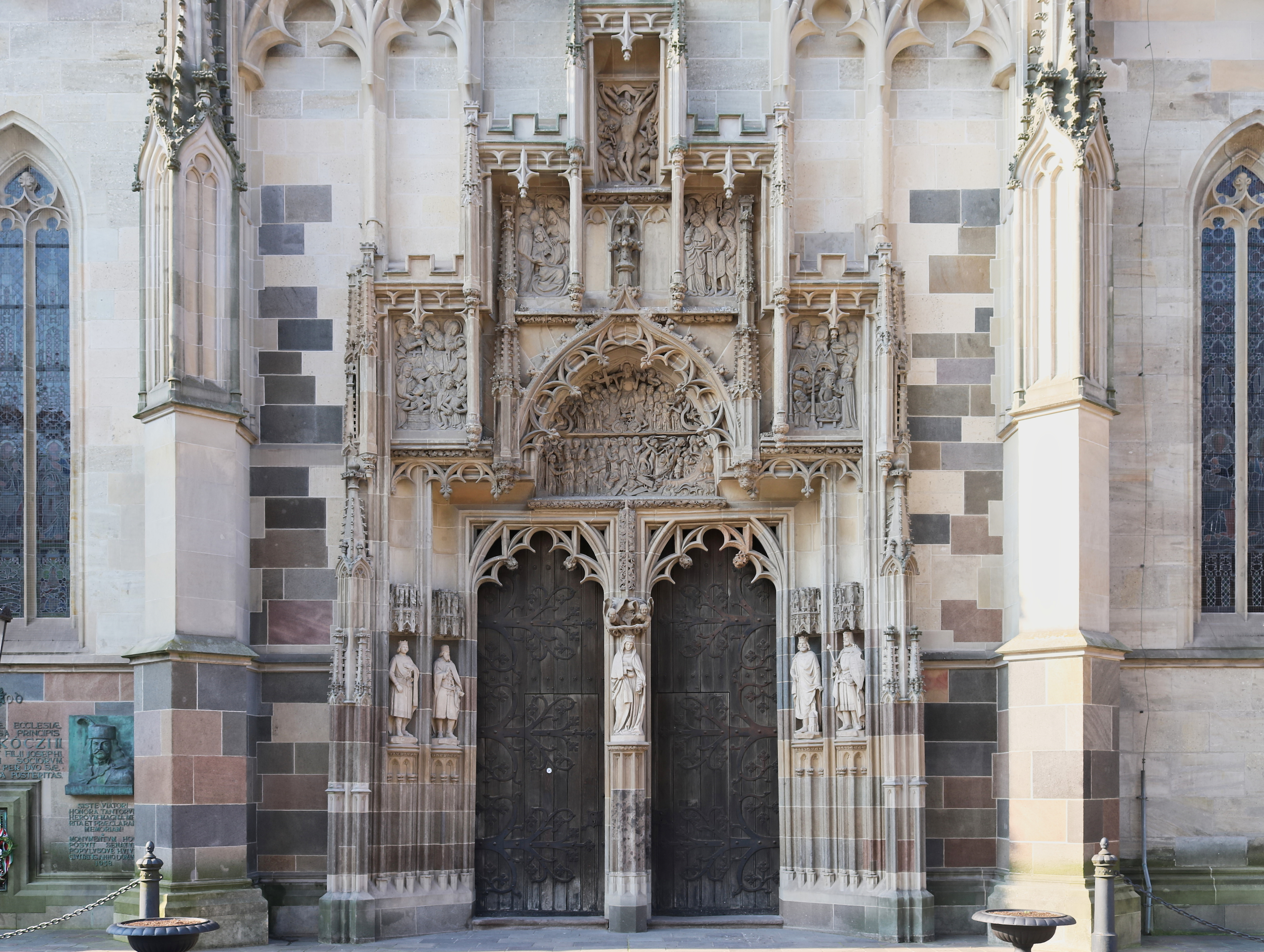 North portal of St Elisabeth Cathedral in Košice